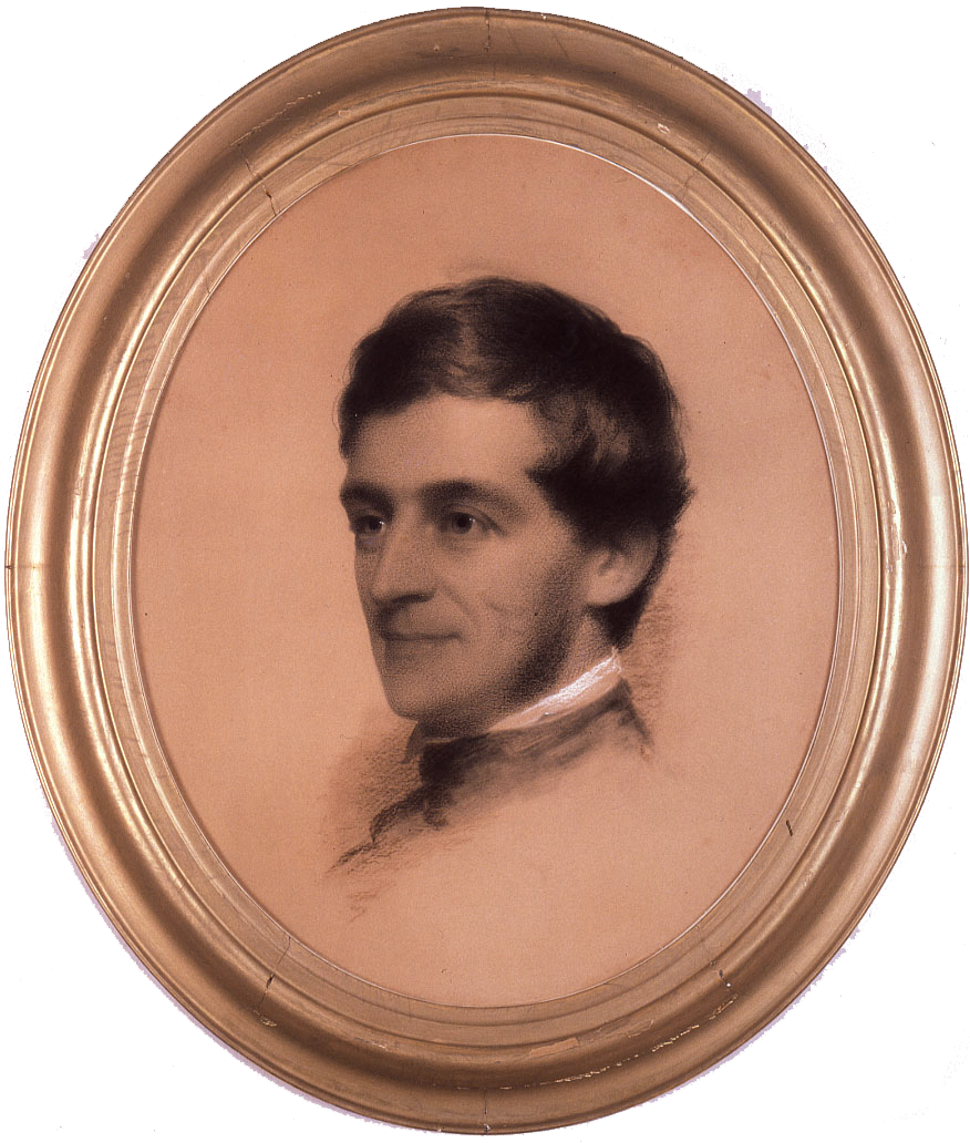 Charcoal portrait of Ralph Waldo Emerson by artist Eastman Johnson, 1846. Part of the personal collection of friend Henry Wadsworth Longfellow.